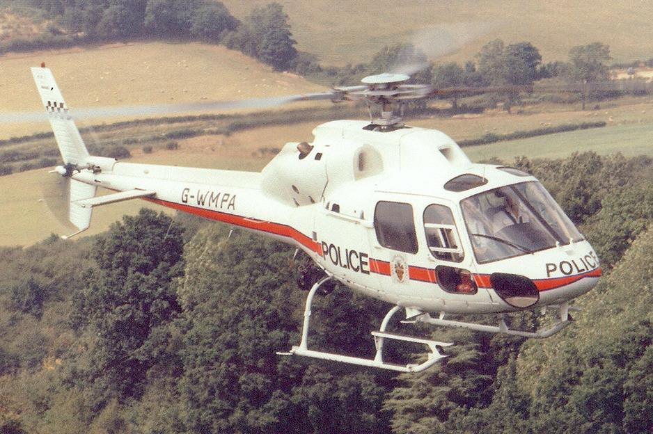 The very first West Midlands Police helicopter, G-WMPA, an Aerospatiale AS355 F2, after the force launched their own air unit with it on 10 May 1989.